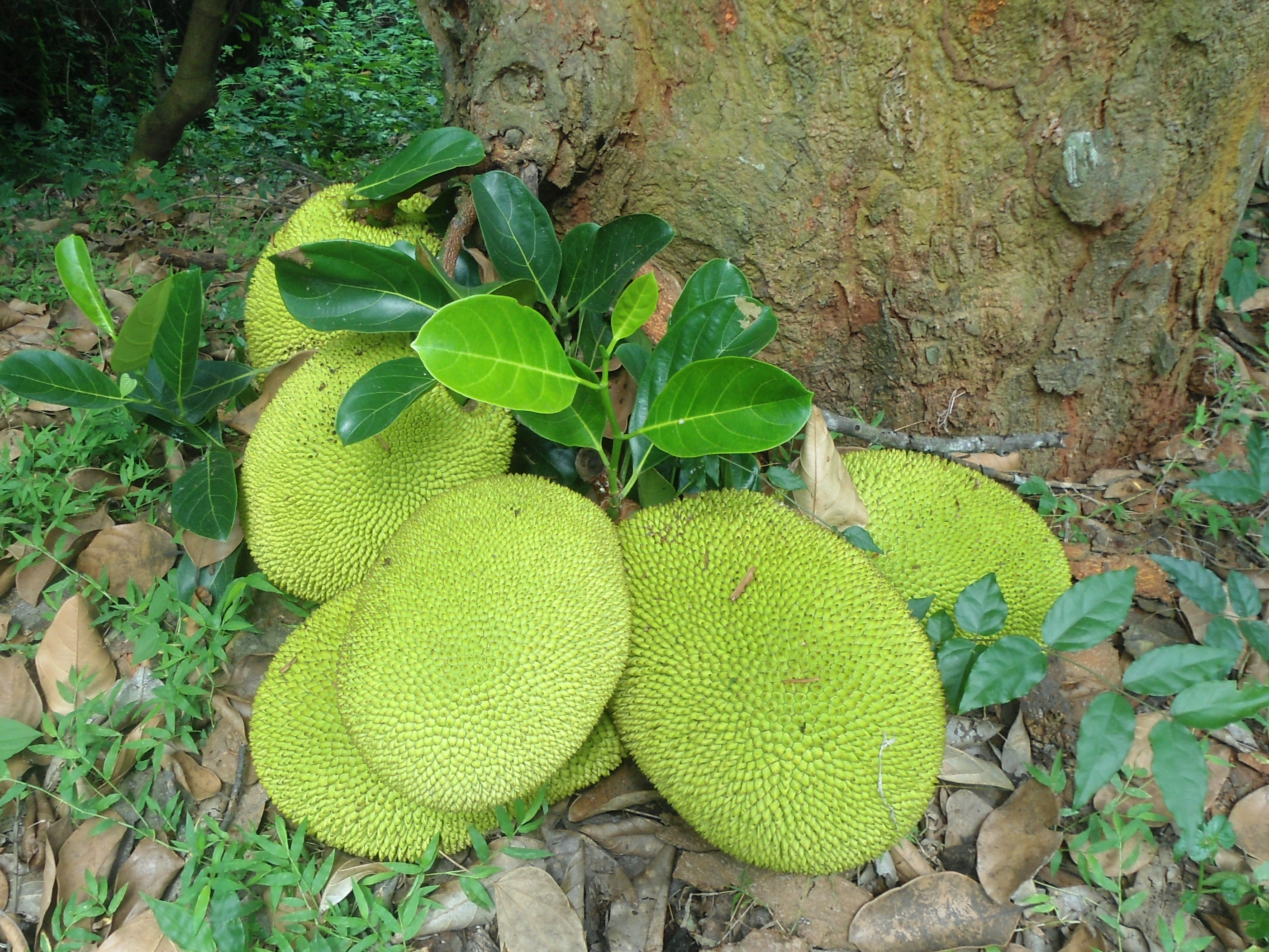 (Artocarpus heterophyllus) Jack fruits on Simhachalam Hills, Visakhapatnam